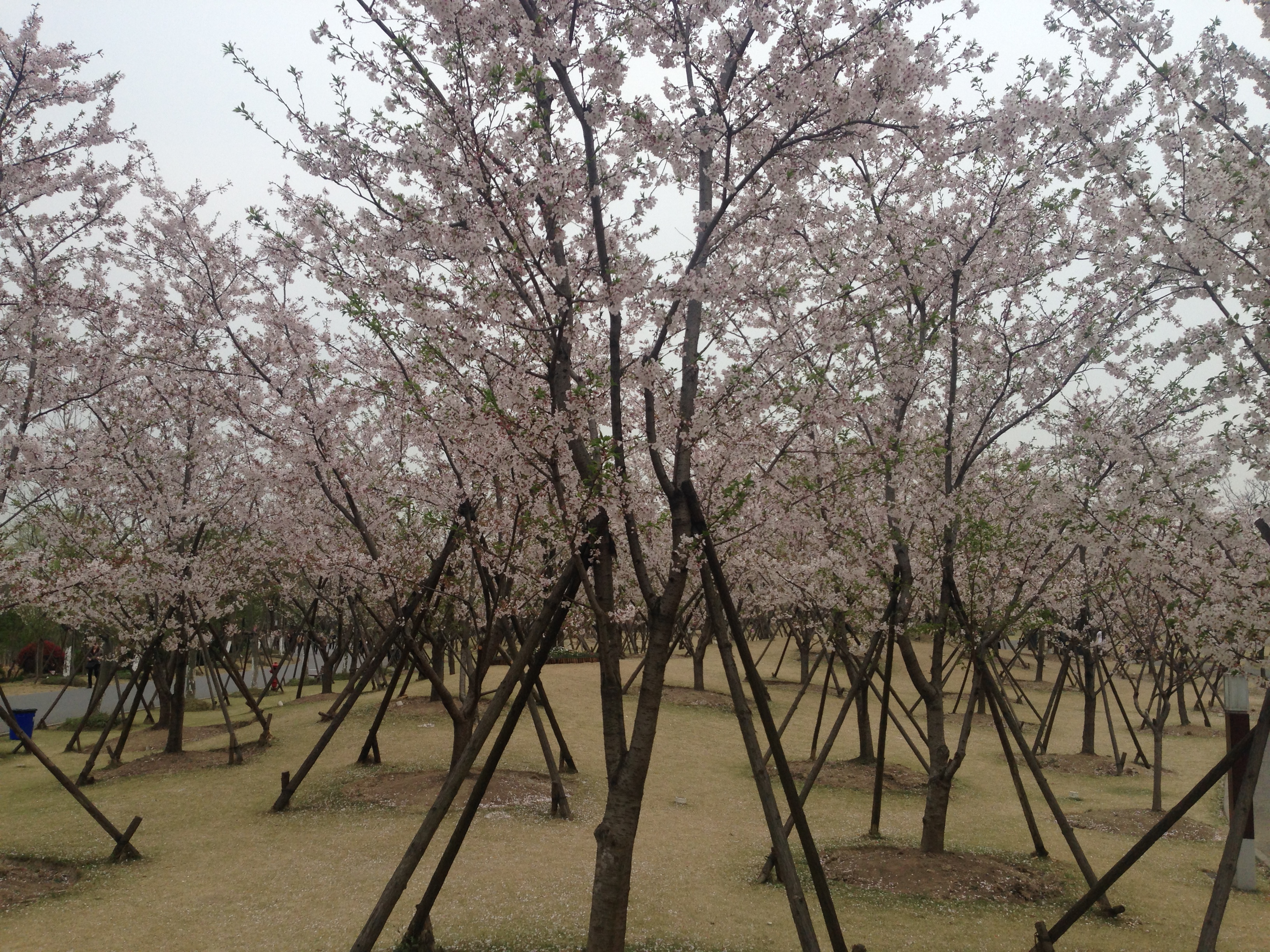 The 2016 Shanghai Cherry Blossom Festival in Gucun Park.